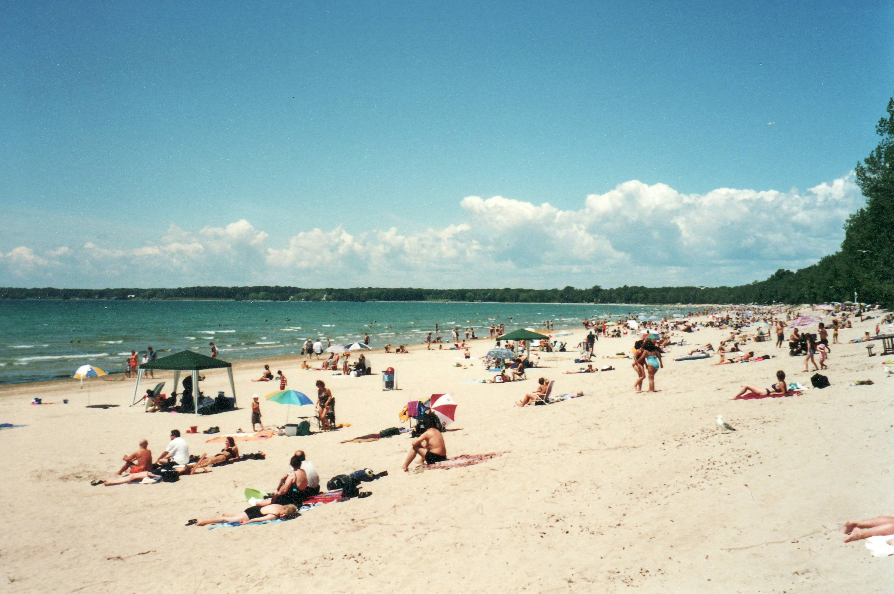 Lake Ontario, Sandbanks Provincial Park (Adventure Land) (2001)